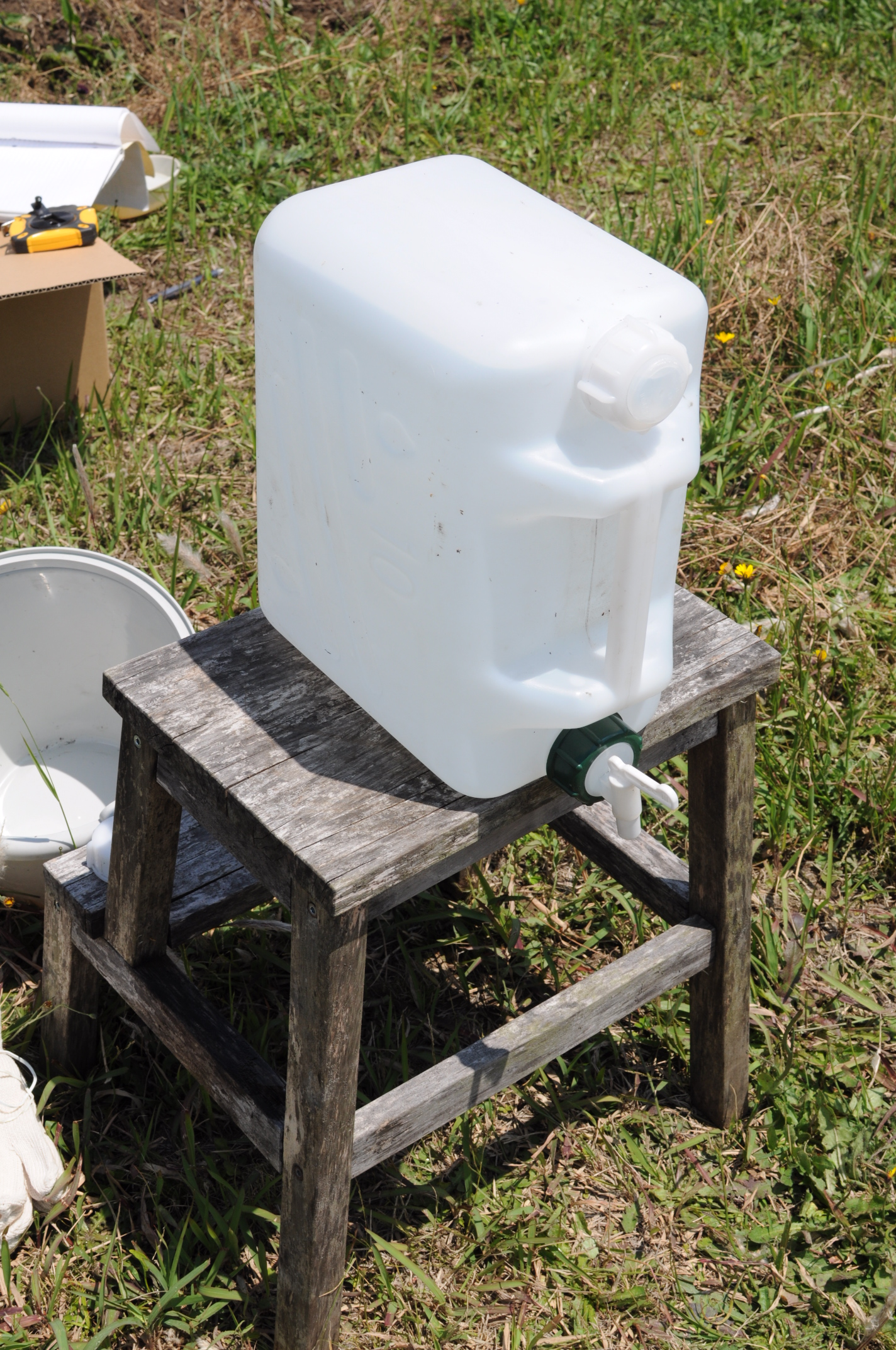 Stock water